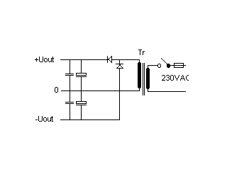 Double rectifier